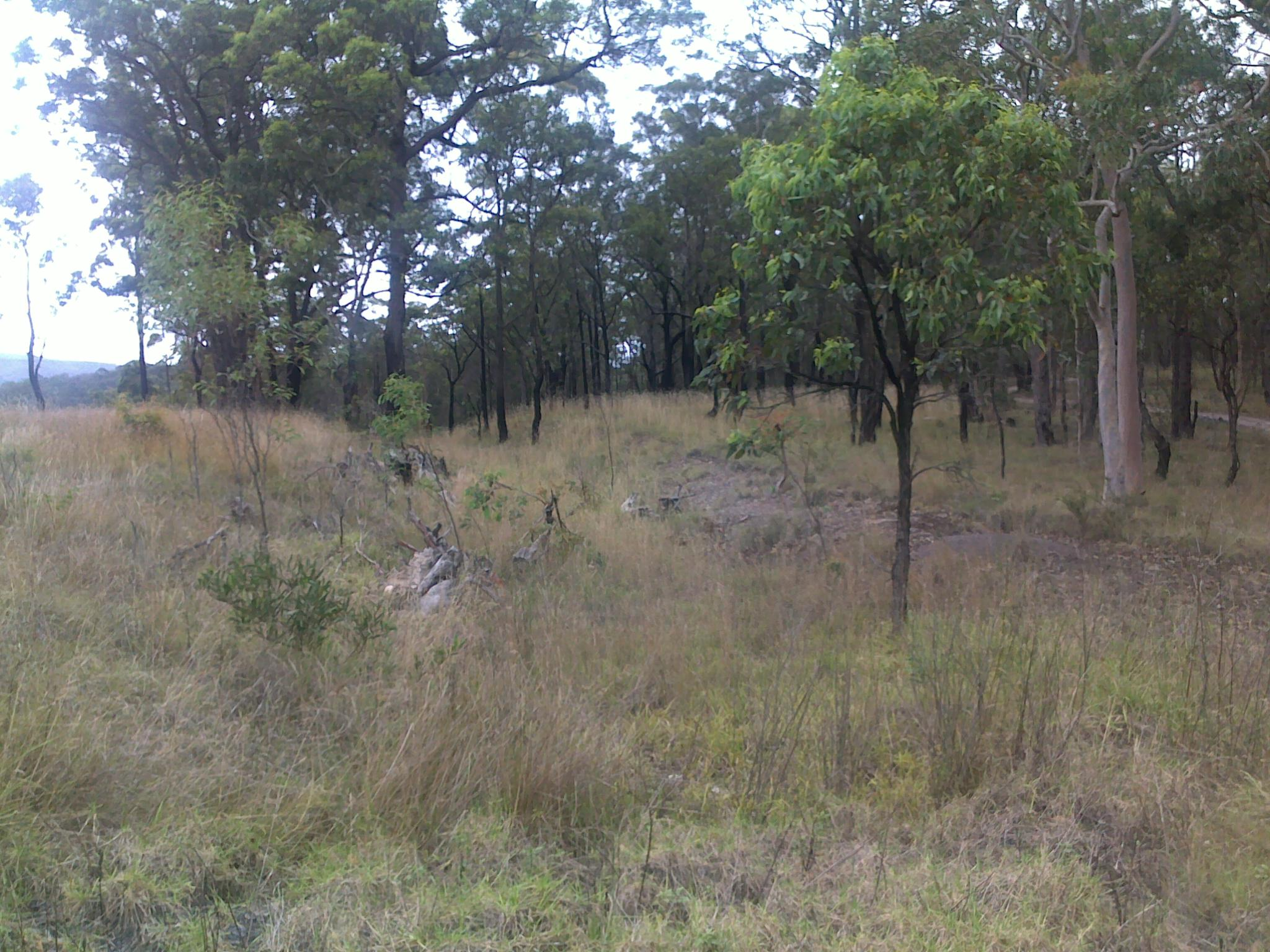 Old Tram cutting near West Wallsend, Newcastle, Australia